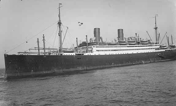 Berlin (III), German ocean liner